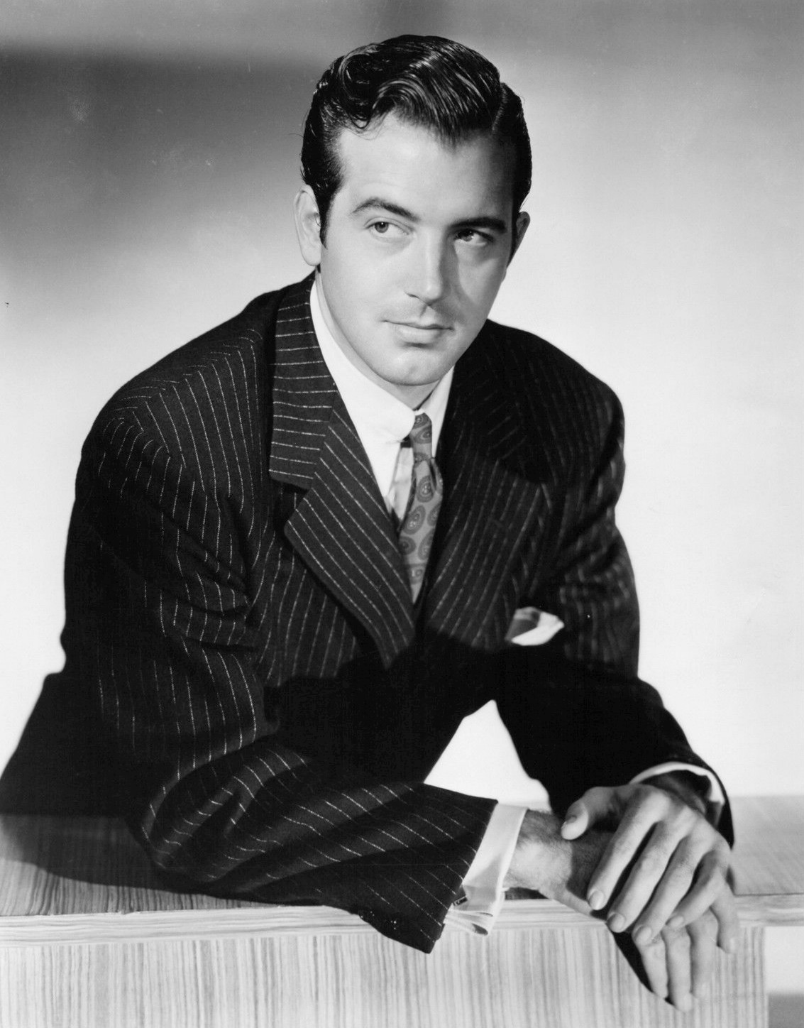 Photo of John Payne from the television anthology series Silver Theater. The radio version of the show was also an anthology-type and broadcast on CBS Radio until 1947. The item has no copyright markings on it as can be seen in the links above.